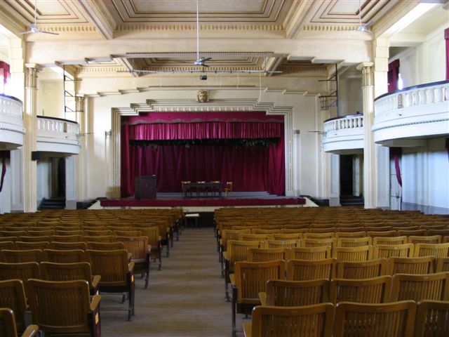 Lycee Al Horreya Theatre at El shatby Alexandria